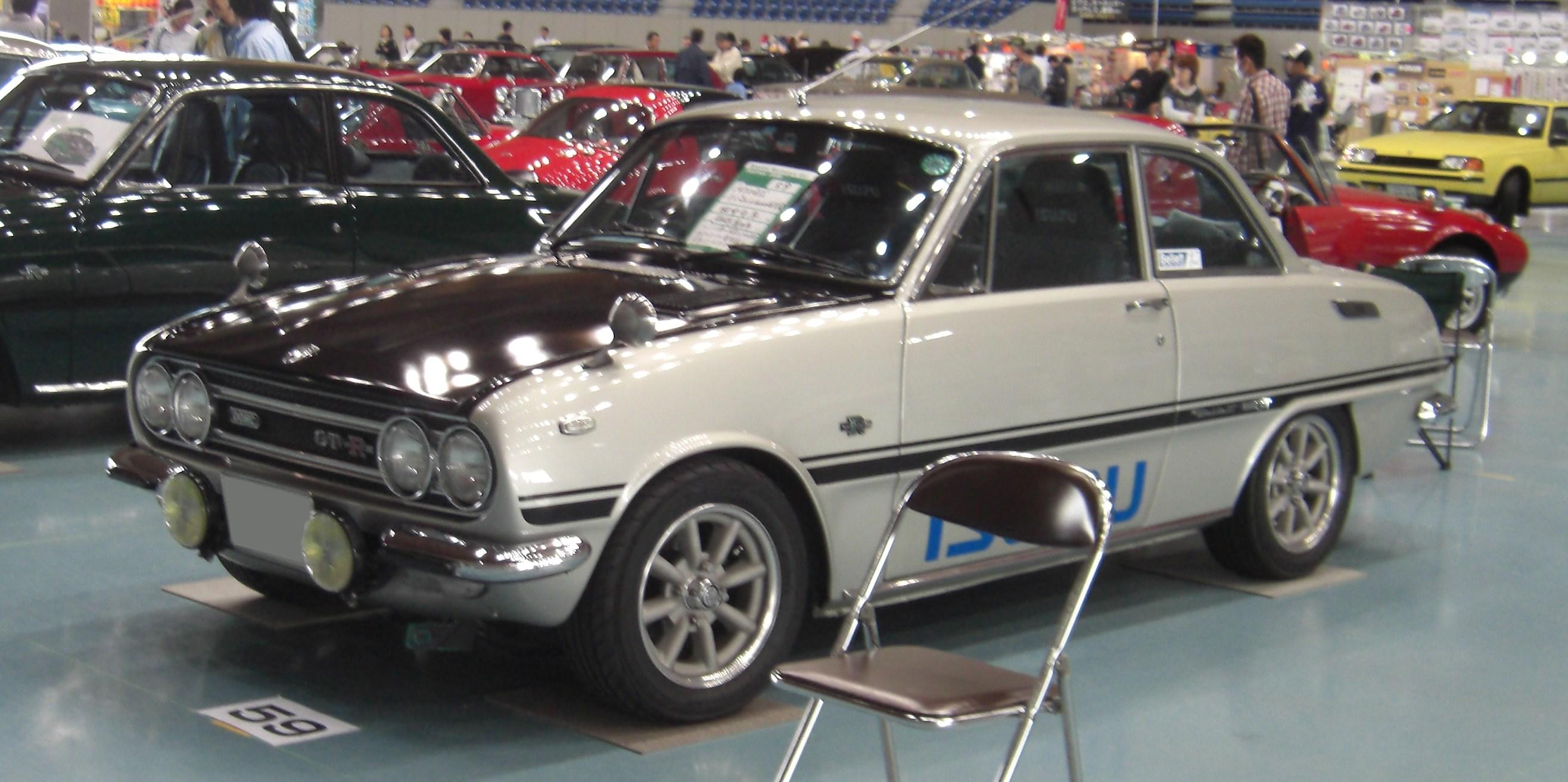 Isuzu Bellett